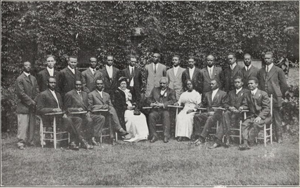 An early image of Alumni of the Negro Agricultural and Technical College of North Carolina (now North Carolina Agricultural and Technical State University) at their 1915 reunion